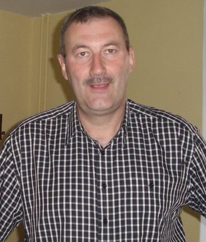 Jerzy Binkowski, basketball player from Poland